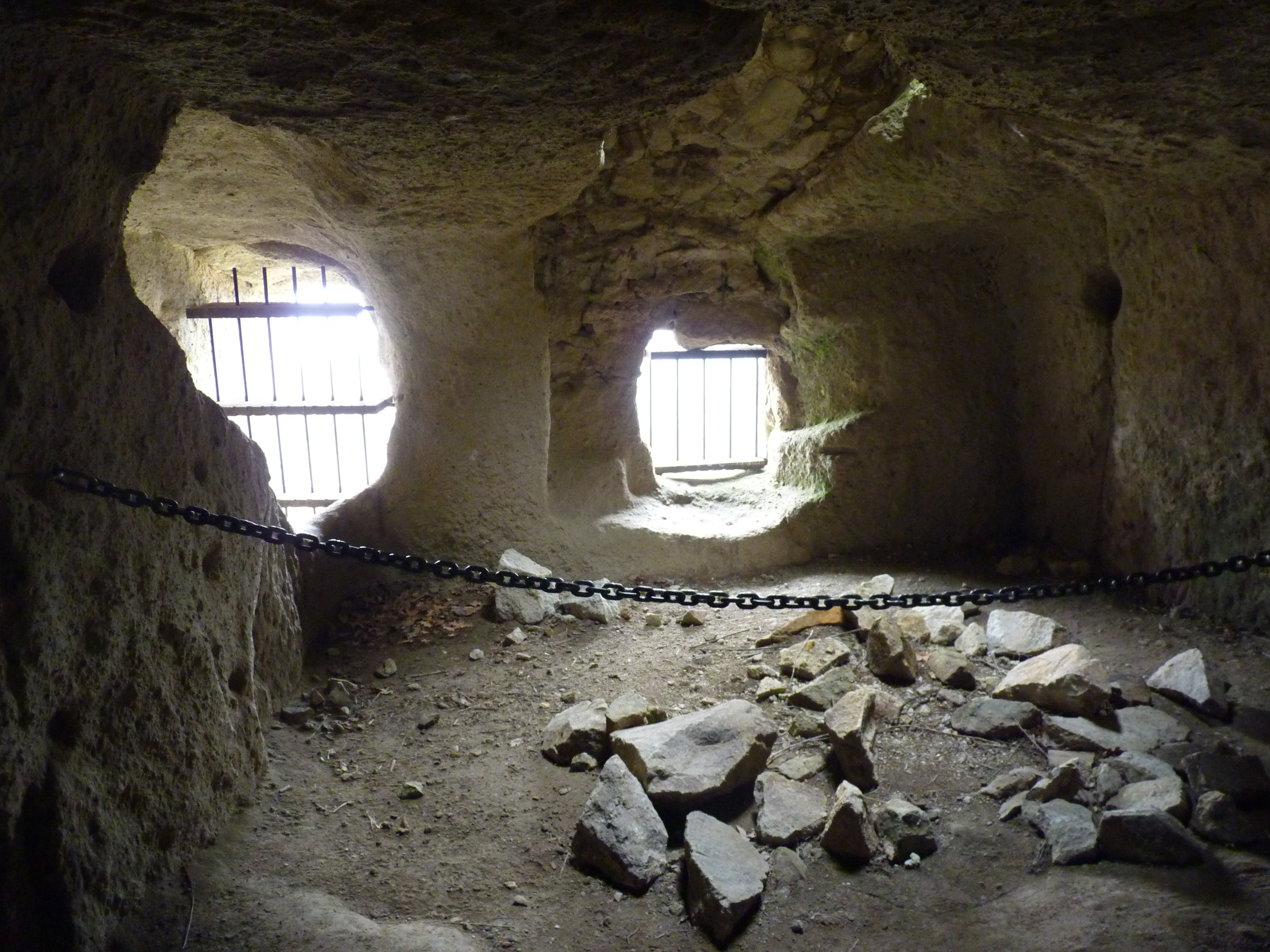 Castle of Sirok - dungeons